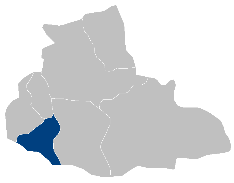 Location map for the Qala i Naw District of Badghis Province, Afghanistan. Original map source: Image:Badghis districts.png